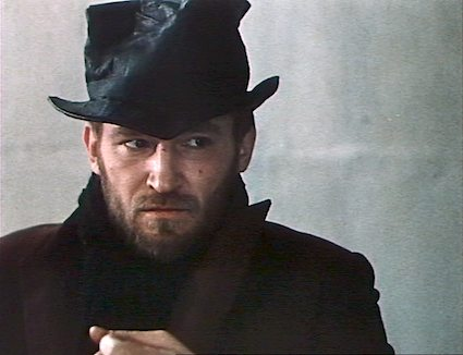 Baron Zedlitz